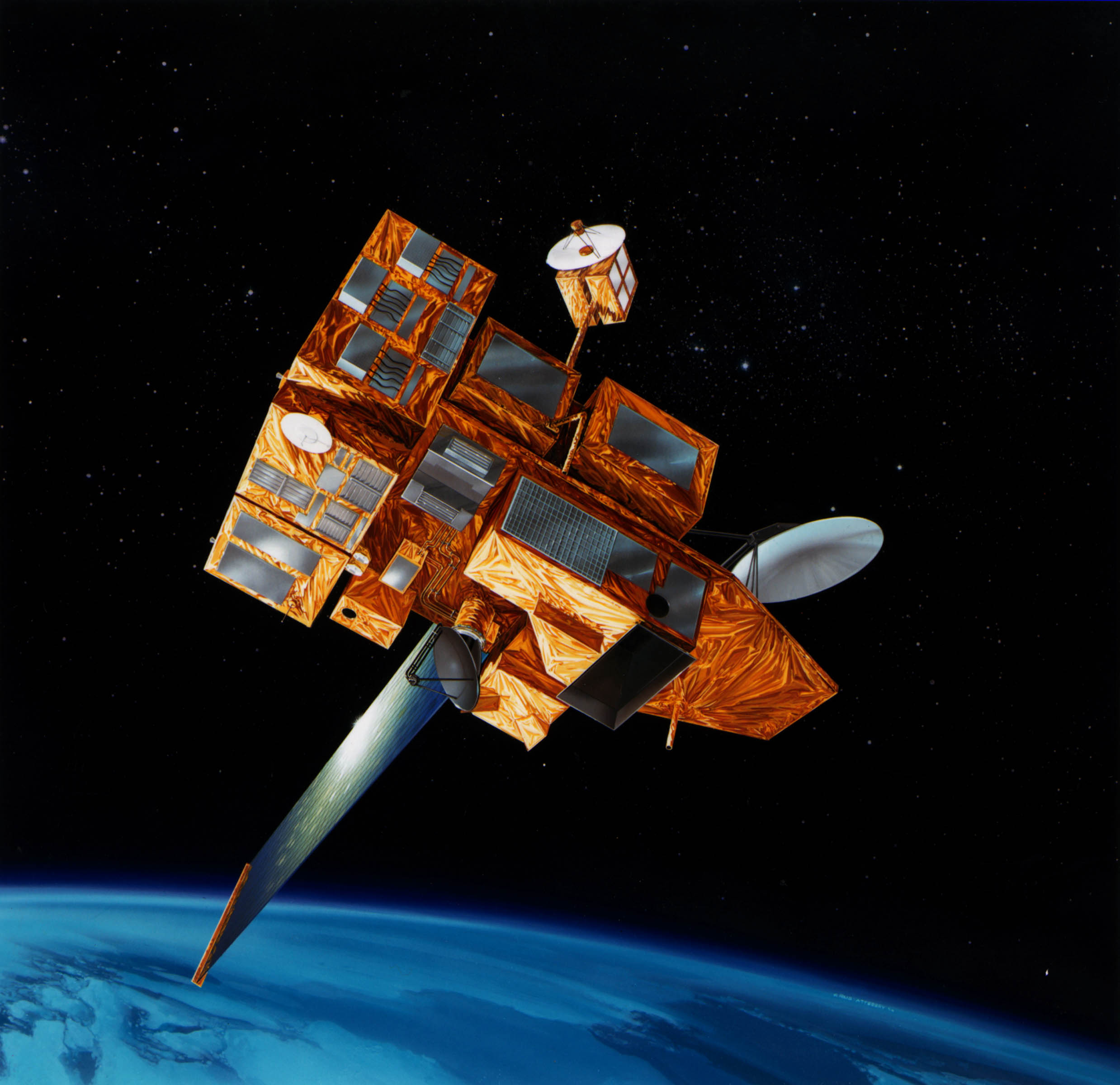 Artist's drawing of the ADEOS II satellite